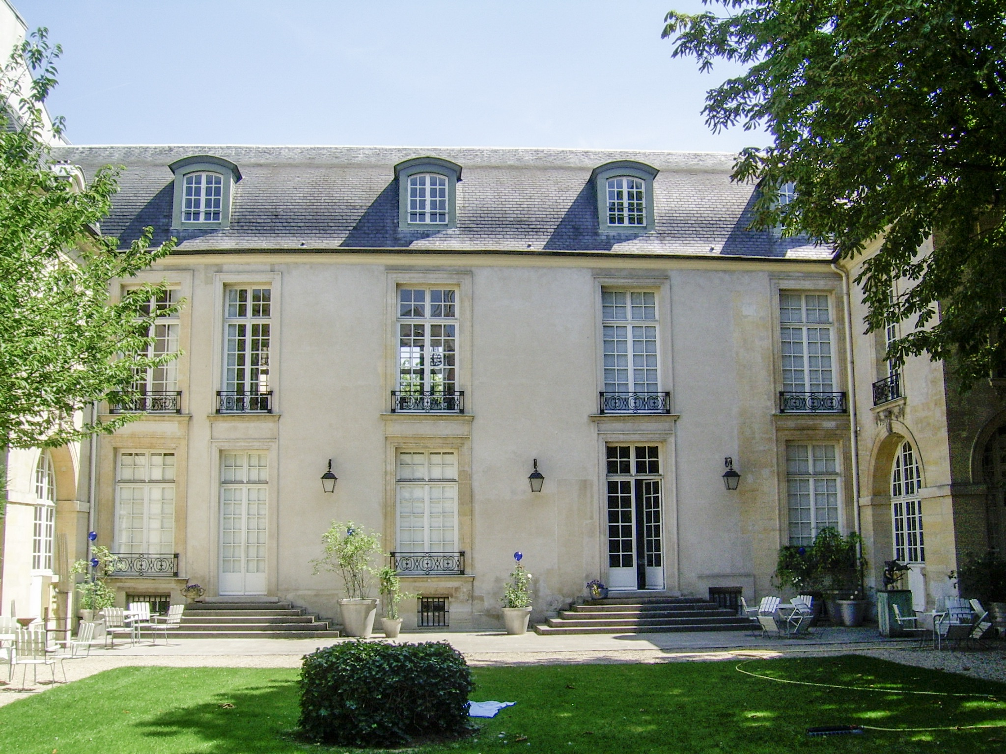 Garden and courtyard of Hotel de Marle in Paris, France, home to the Swedish institute Centre Culturel Suédois.